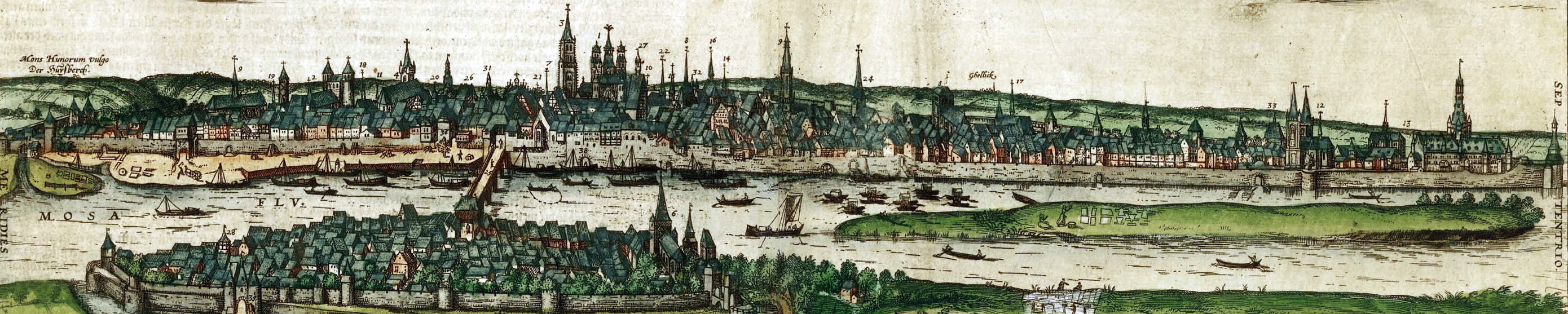 View of the city of Maastricht, Netherlands, around 1570. City panorama, birdview from the east, based on drawing by Simon de Bellomonte, ca. 1570, published in 1575 in Part 2 of Braun & Hogenberg's atlas of world cities Civitates orbis terrarum.